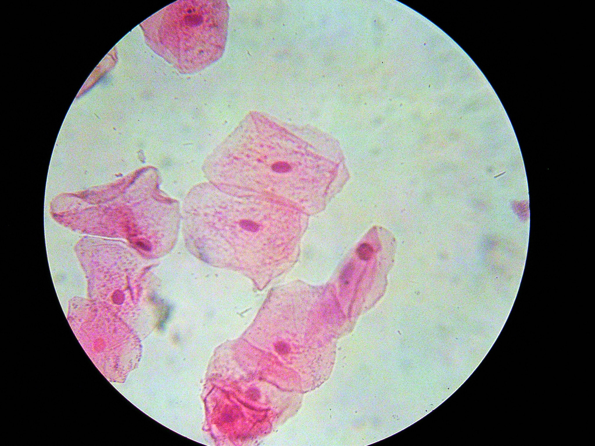 Cheek cells (nonkeratinized stratified squamous epithelium) at 500x magnification.